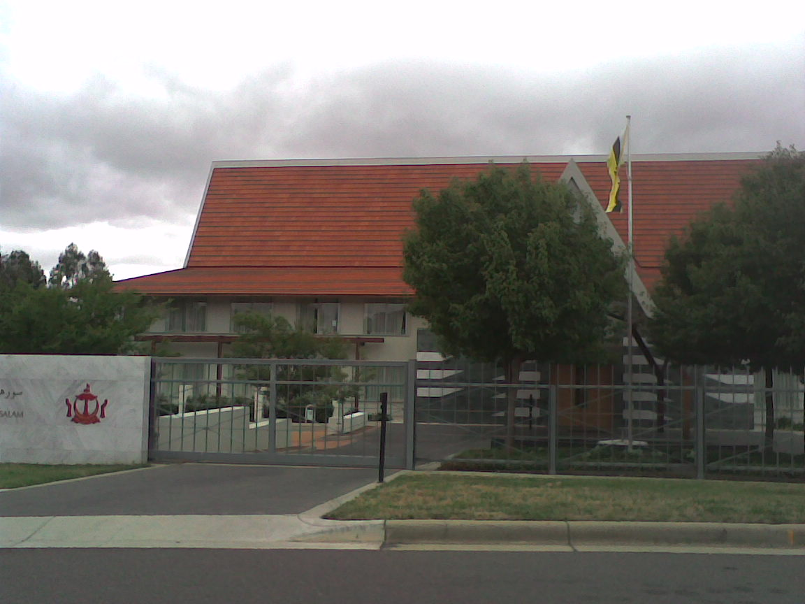 Bruneian High Commission in Canberra.